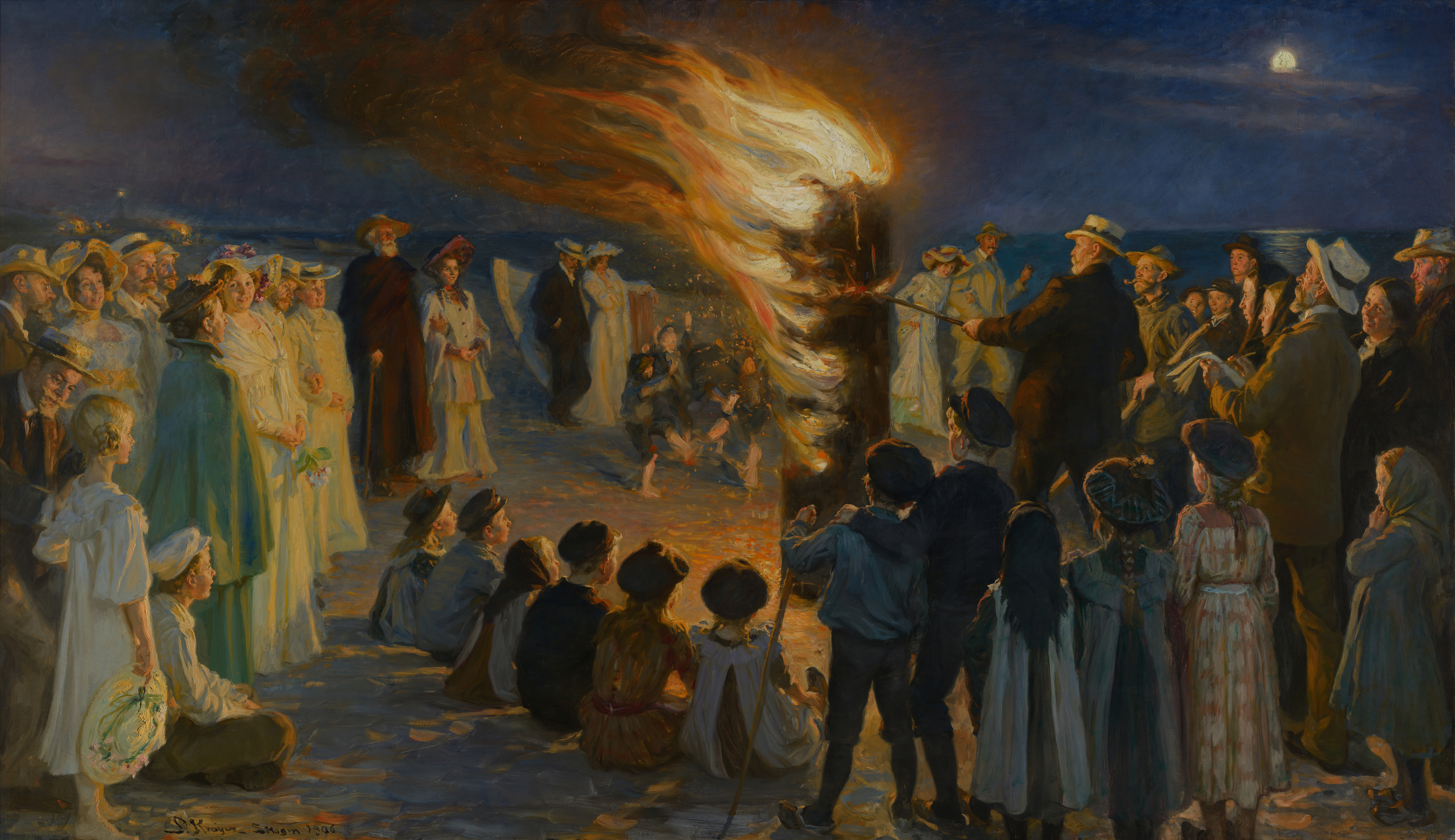 The painting includes many of the Skagen Painters: Krøyer's daughter Vibeke, mayor Otto Schwartz and his wife Alba Schwartz, Michael Ancher, Degn Brøndum, Anna Ancher, Holger Drachmann and his 3rd wife Soffi, the Swedish composer Hugo Alfvén and Marie Krøyer.